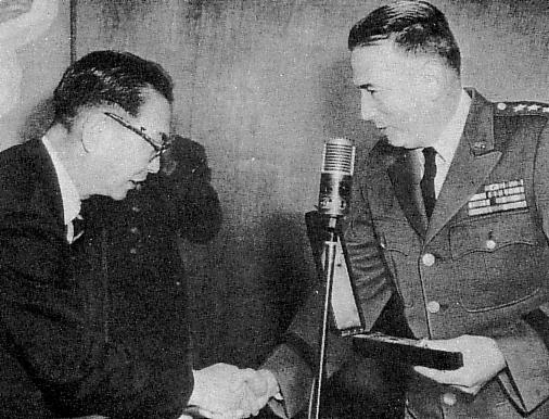 HICOM Booth receiving the Order of the Rising Sun, Gold and Silver Star